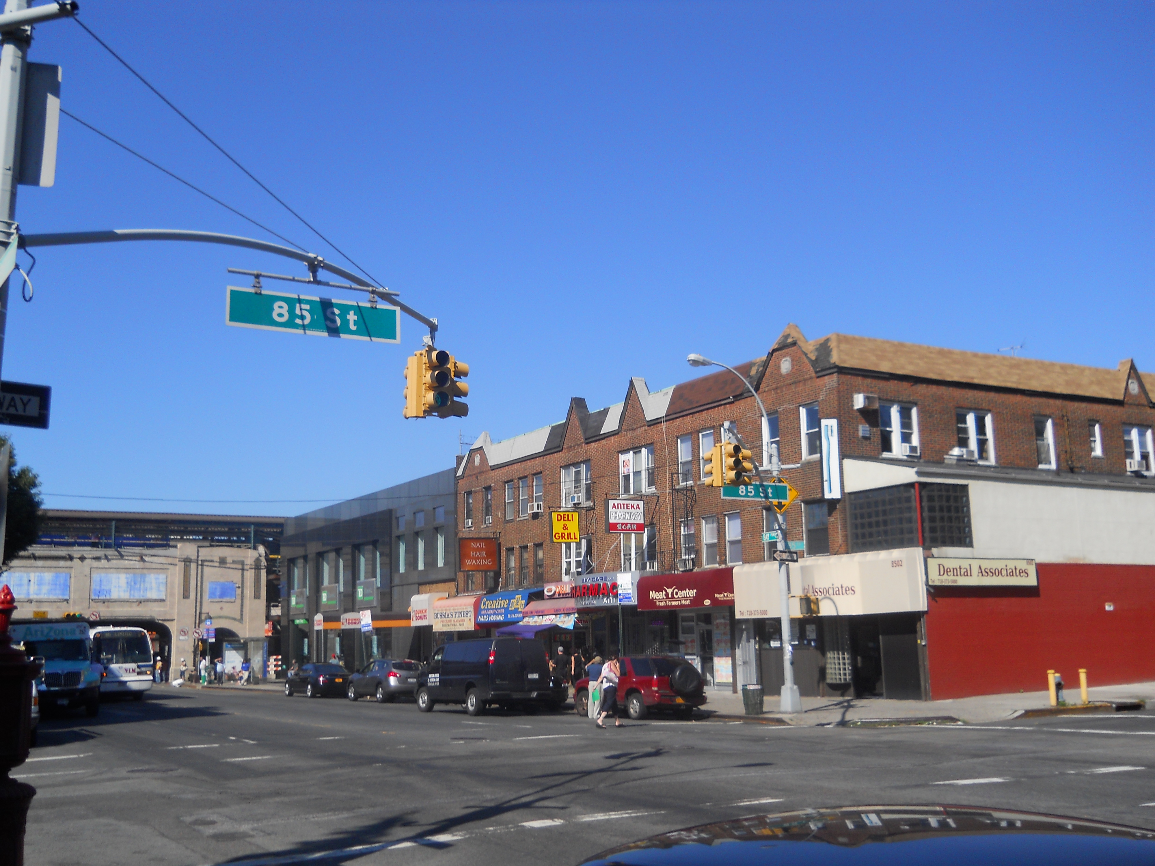 Looking southwest at Bay Parkway in Bensonhurst, NY.